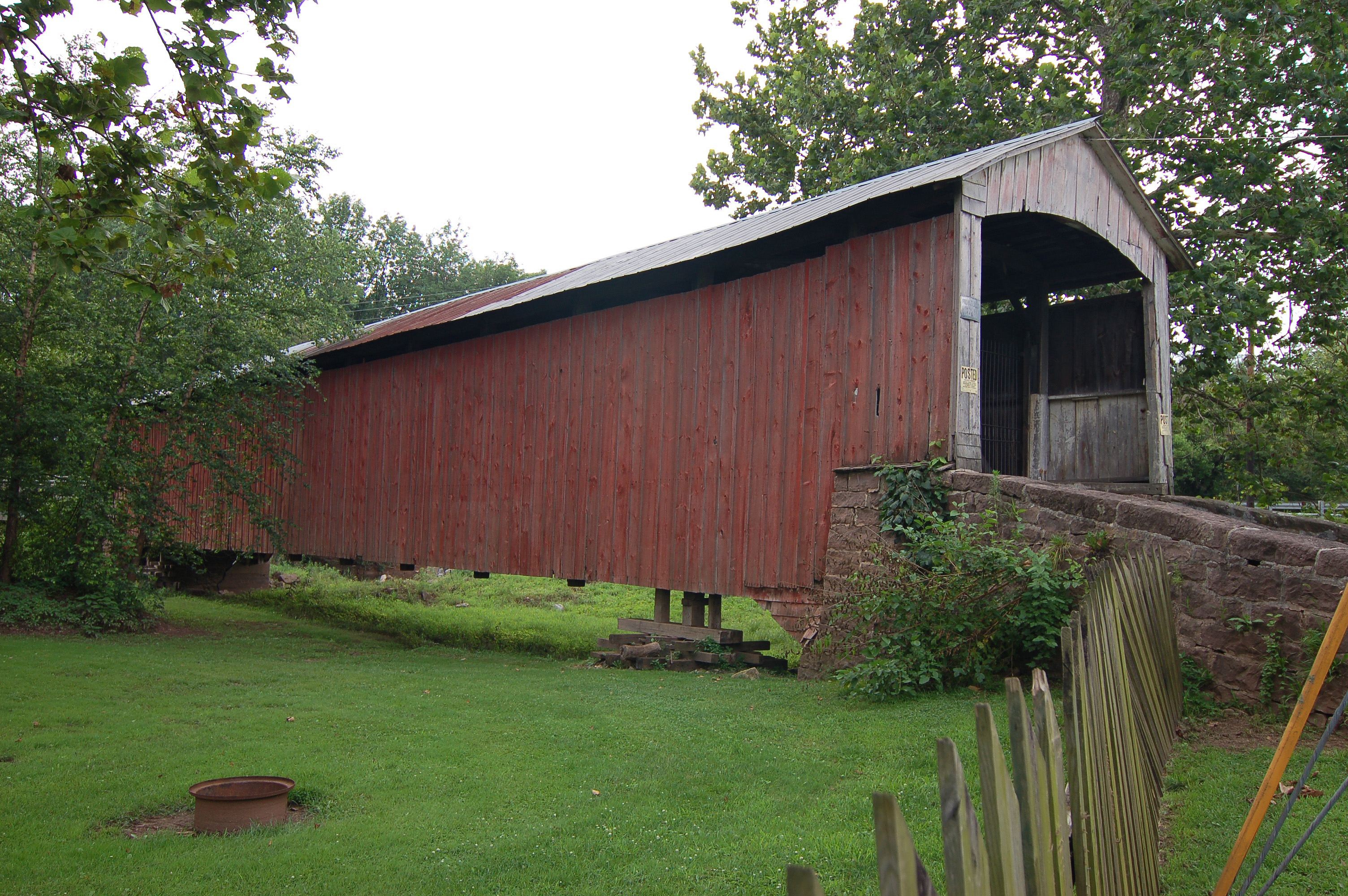 A photograph of the Red Run Covered Bridge located in Lancaster County, Pennsylvania.